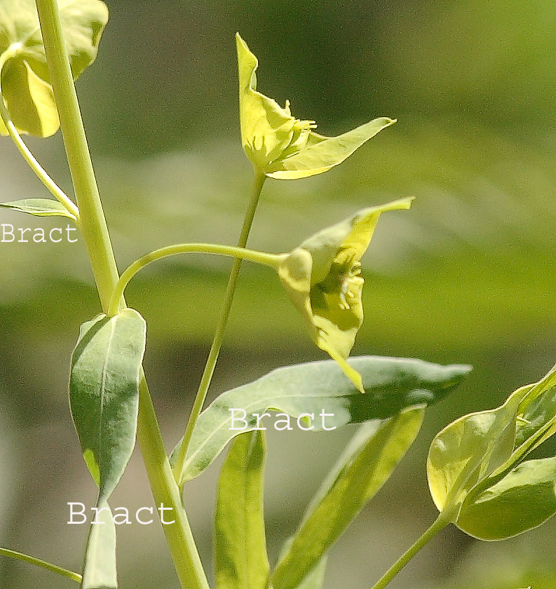 Self made picture showing leafy bracts subtending the inflorescences of a Euphoria. taken spring 2008.